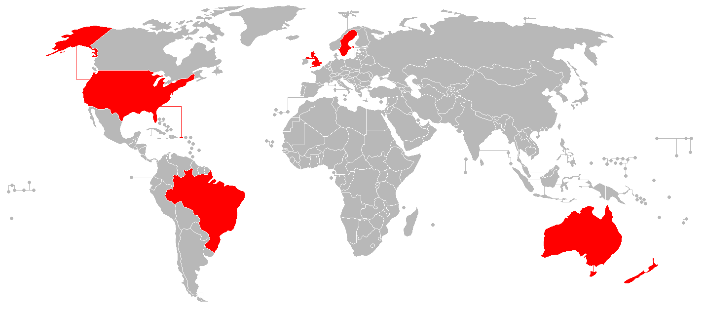 Areas in red indicates countries where Ross Pearson has competed in as of August 2017